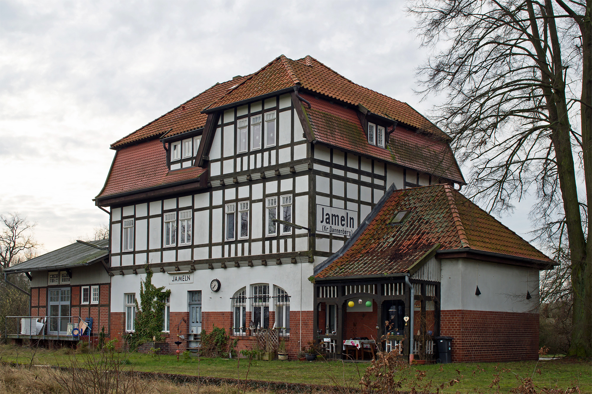 Former railway station of "Jameln" in northern Germany.